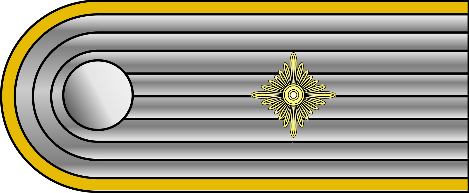 Rang insignia of the German Wehrmacht, here shoulder strap “First lieutenant” Heer